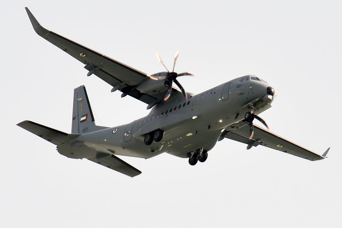 United Arab Emirates Air Force, 821Casa C-295MW